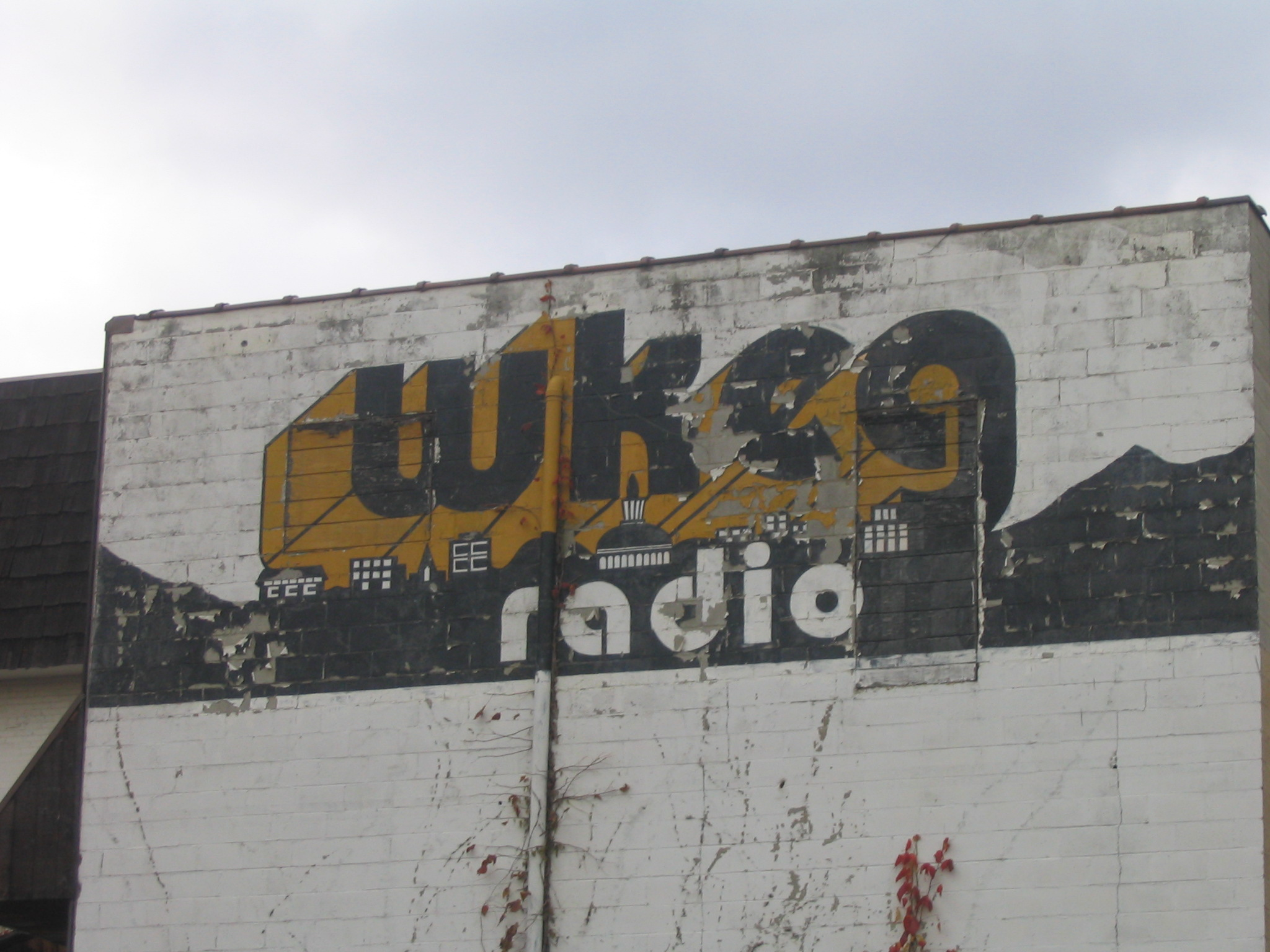 Relic from the past: Aging WKEG bill painted on the side of a building along North College Avenue at East Chestnut Street in Washington, Pennsylvania; across and down the street from the current WKZV studios. Photo: October 2007.Own work.